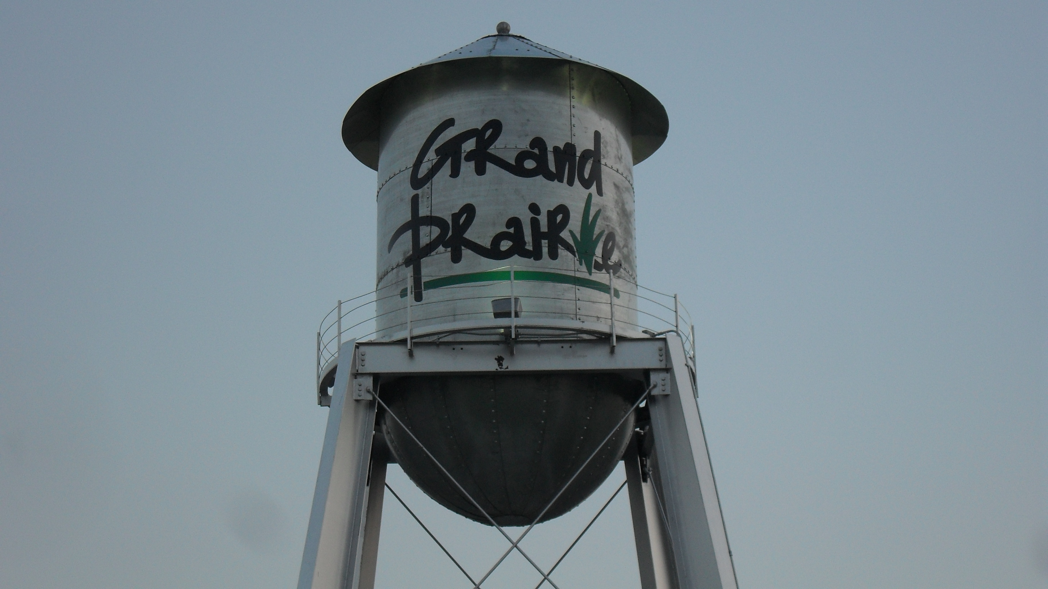 A close up of Grand Prairie's City logo on the water tower located on the corner of SW 2nd Street and W. Main at Market Square.